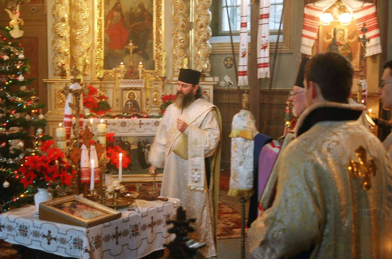 Eastern Orthodox church in Sanok